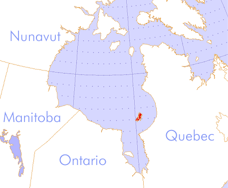 Location of Belcher Islands, Hudson Bay, Canada